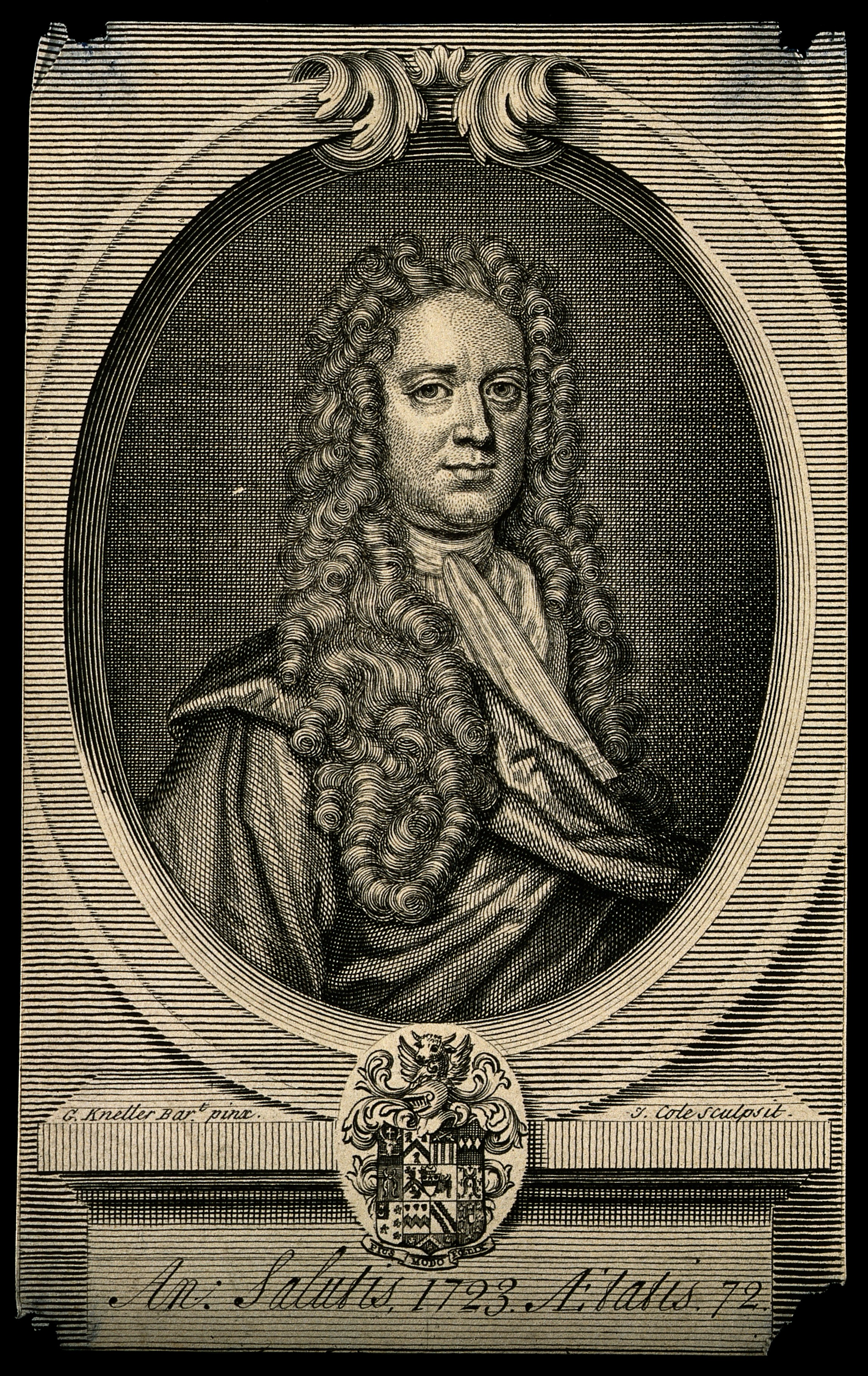 Whitelock Bulstrode. Line engraving by J. Cole after Sir G. Kneller. Frontispiece to Essays upon the Following Subjects... by Bulstrode, published in 1724. Iconographic Collections Keywords: portrait prints; engravings; bulstrode, whitelock, 1650-172; Godfrey Kneller; Whitelock Bulstrode